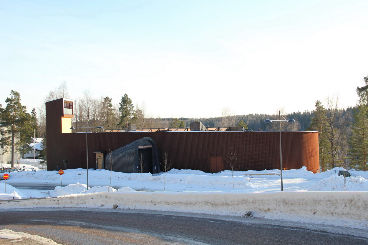 The Finnish Nature Centre Haltia -building, Nuuksio, Espoo, Finland. Completed 2013. Lahdelma & Mahlamäki Architects, architect Rainer Mahlamäki.